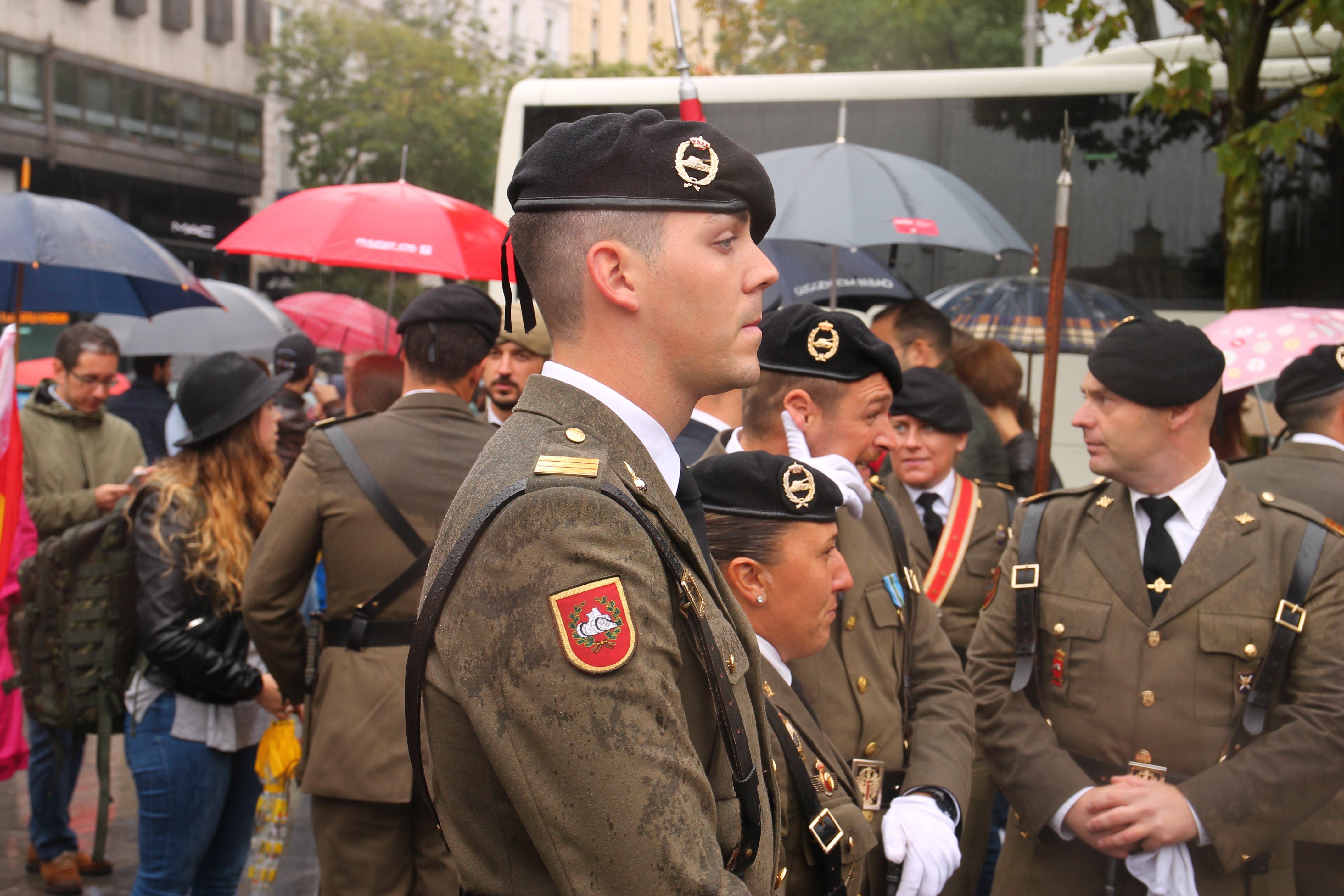 Military parade on Spanish national holiday, October 12th, 2016